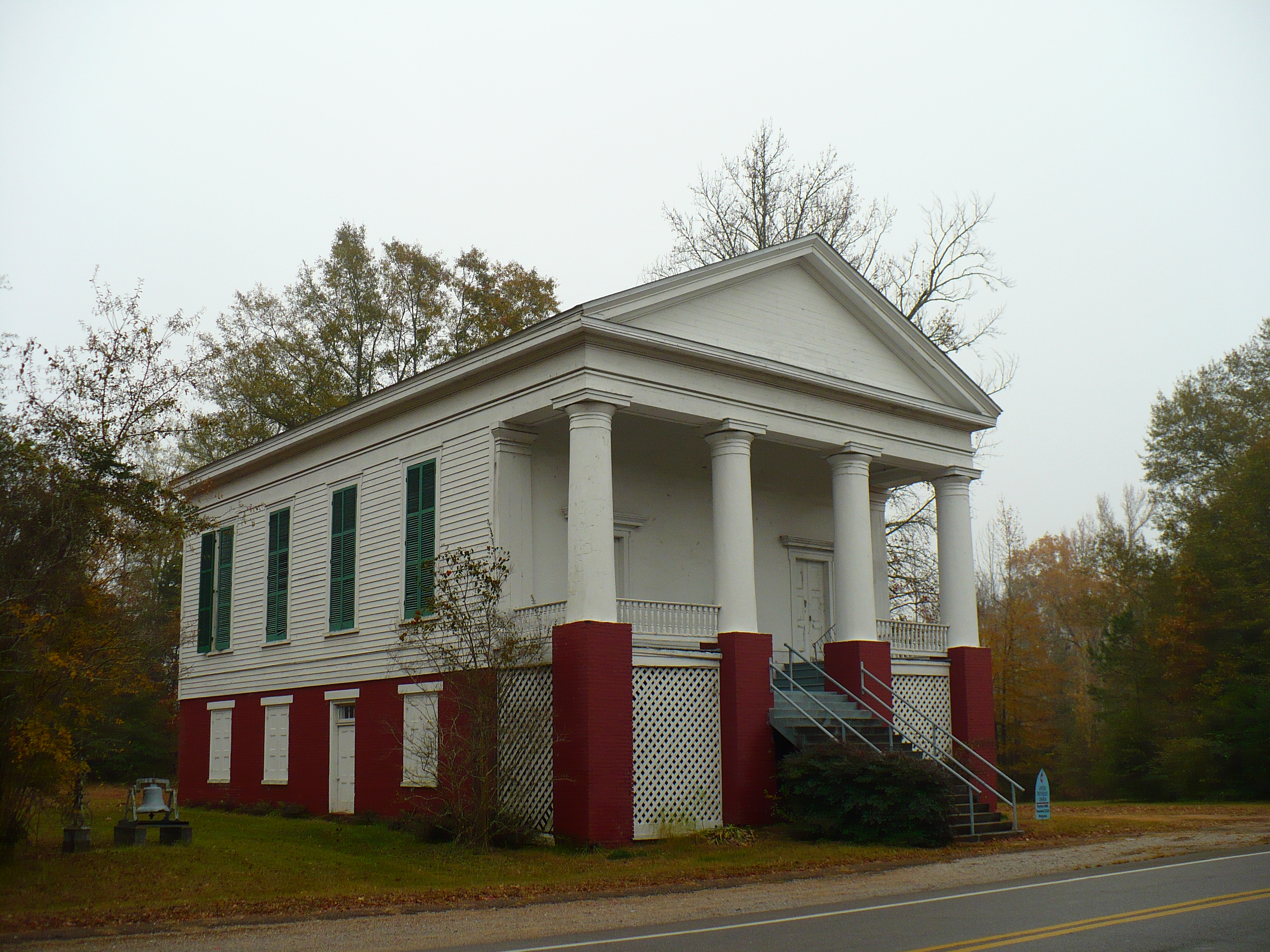 The Greek Revival style Dayton United Methodist Church in Dayton, Alabama. Established in 1819, this building completed in November 1850.